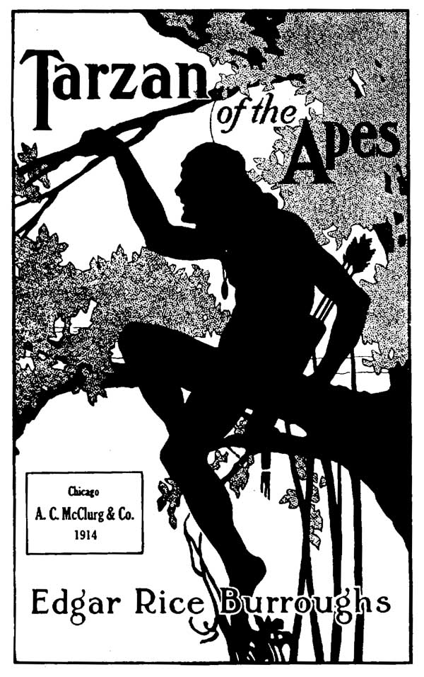 Tarzan of the Apes book cover